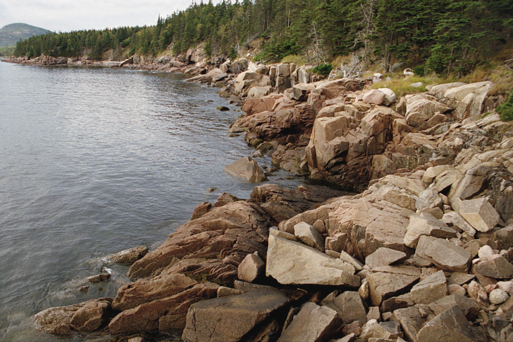 Acadia National Park, Maine, USA, Otter Cove